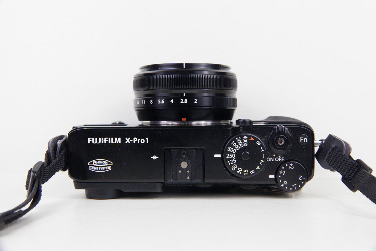 Fujifilm X-Pro1